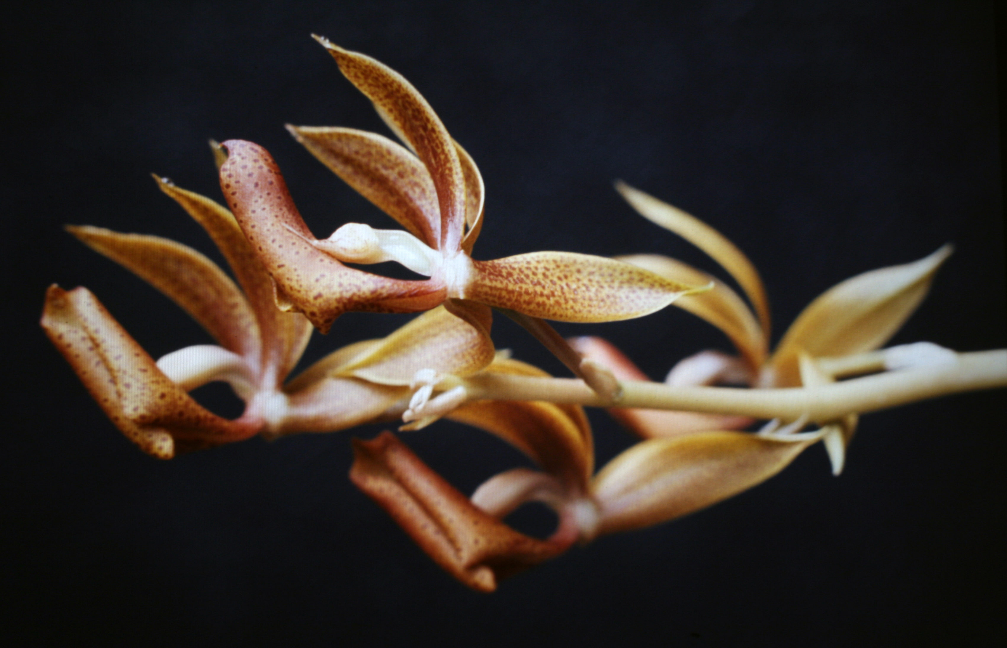 Mormodes buccinator, Suriname. Inflorescence after pollination